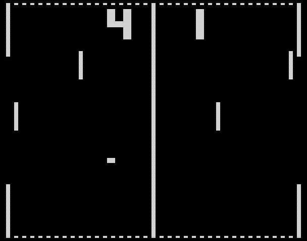 Screenshot Soccer AY-3-8500